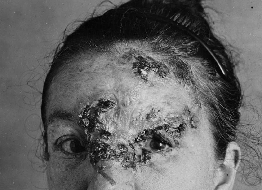 Syphilis, tertiary, skin of face. [Clinical photograph. Venereal diseases.] Dr. John A. Fordyce Collection